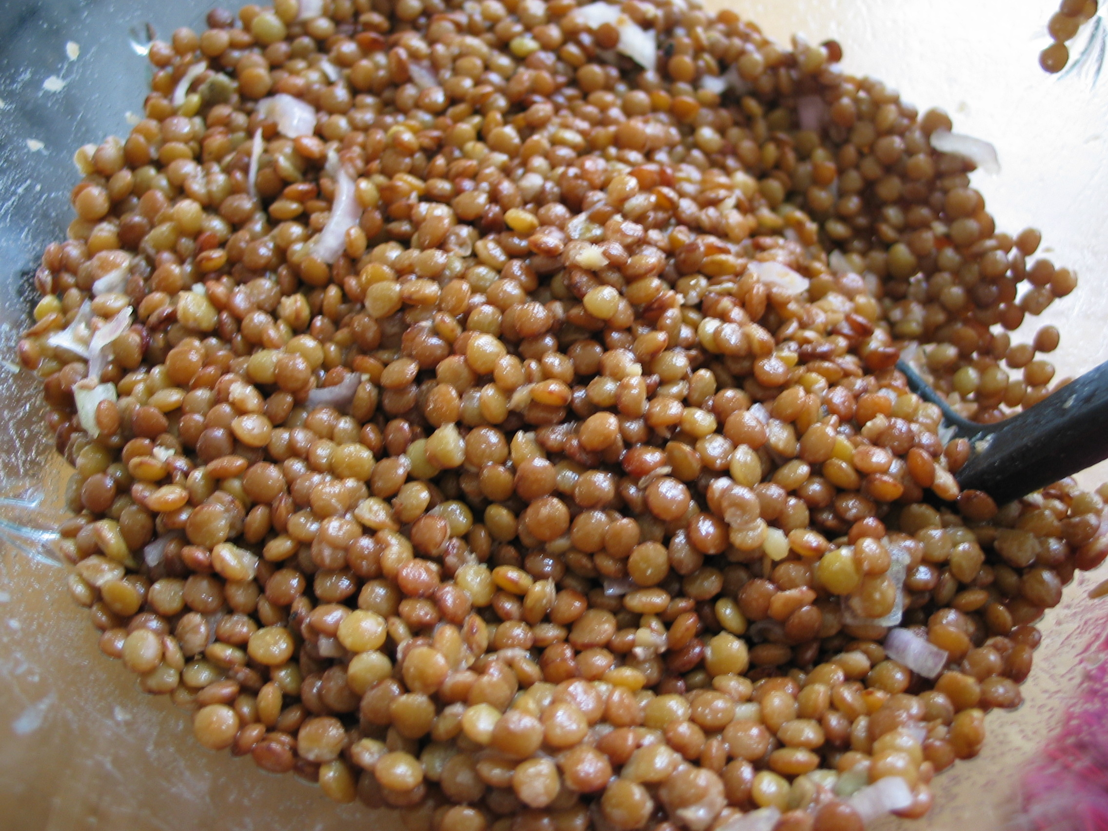 Lentil salad